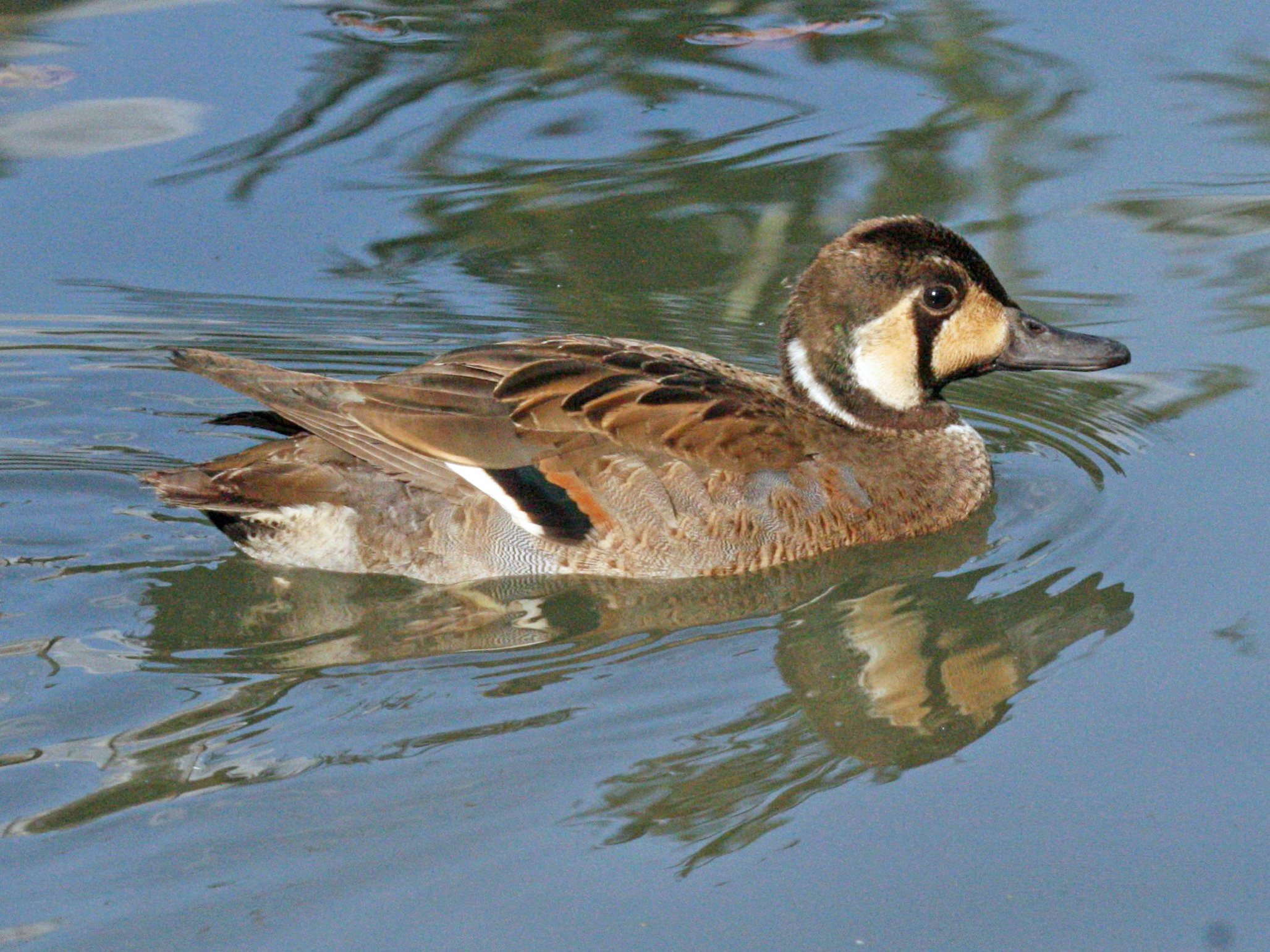 Baikal Teal (Anas formosa) at Sylvan Heights Waterfowl Park in Scotland Neck, North Carolina.